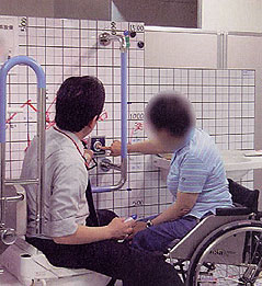 People tested products of Toyo Toki Co., Ltd.(For terms of use, see 内閣府ホームページ利用規約 - 内閣府.)